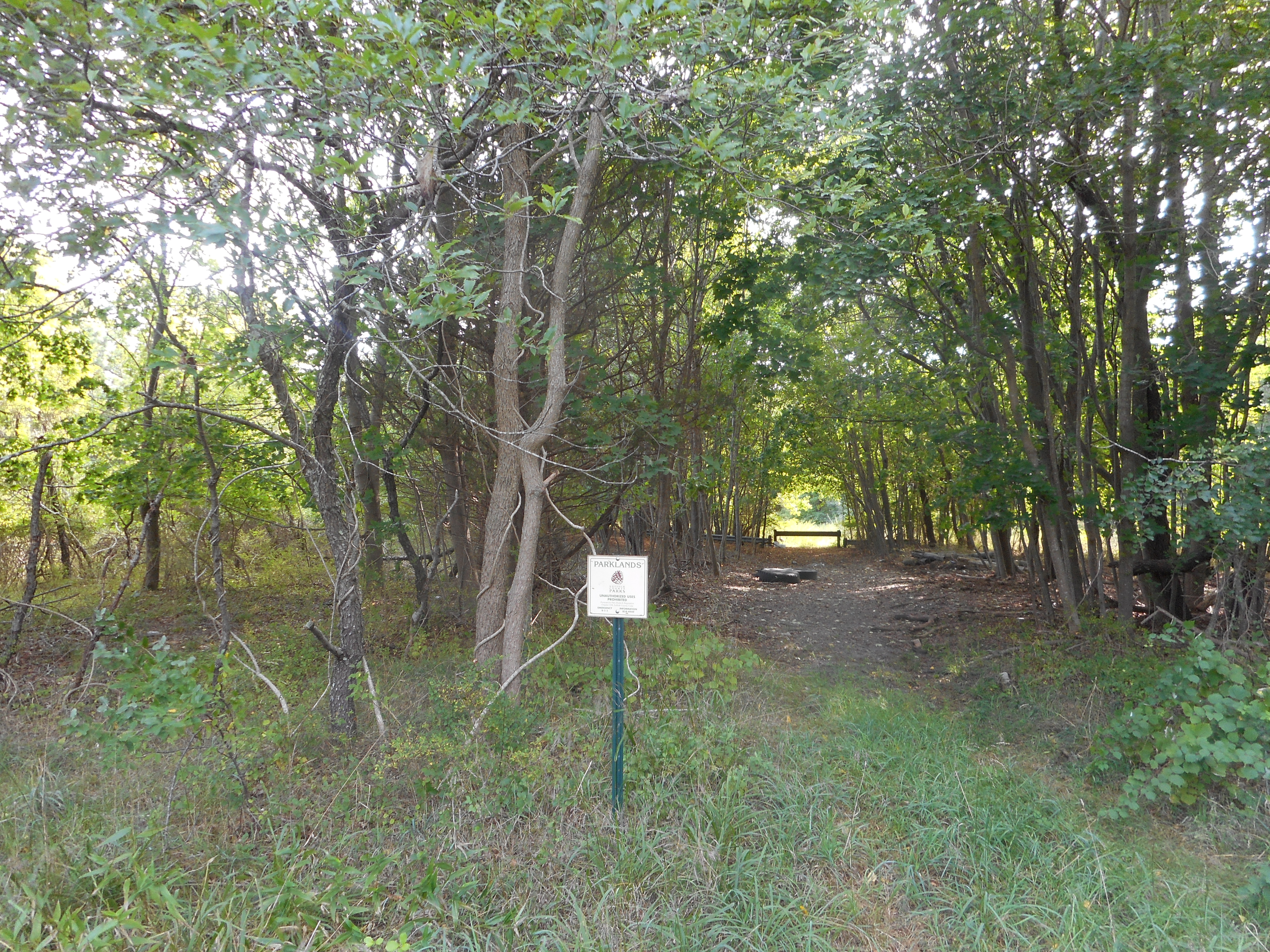 The west end of the former Manorville Branch of the Long Island Rail Road in Manorville, New York, currently an undeveloped rail trail.